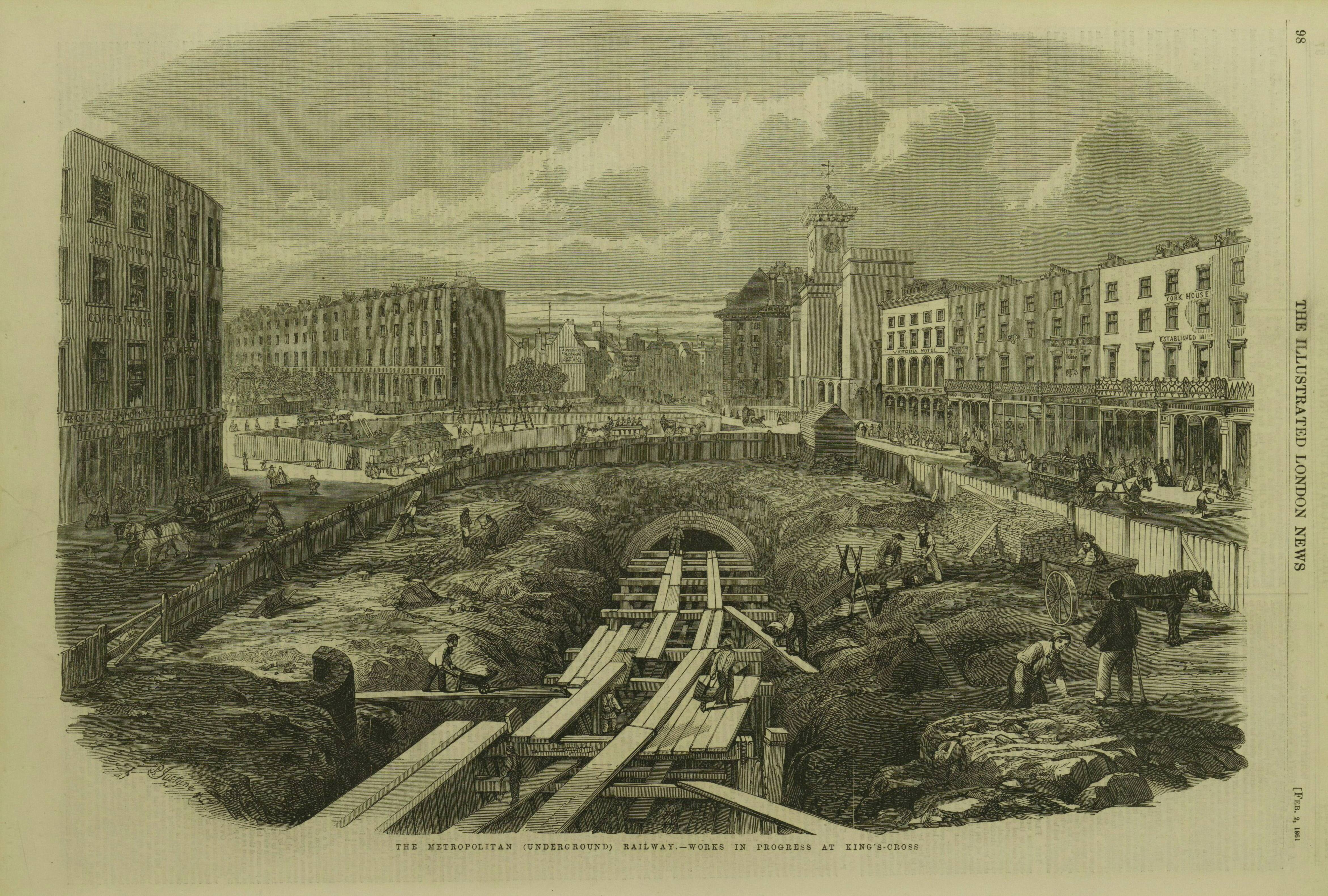 Construction of the Metropolitan Railway, the world's first underground railway. Illustration shows the trench and partially completed cut and cover tunnel close to Kings Cross station, London. The railway opened in 1863.